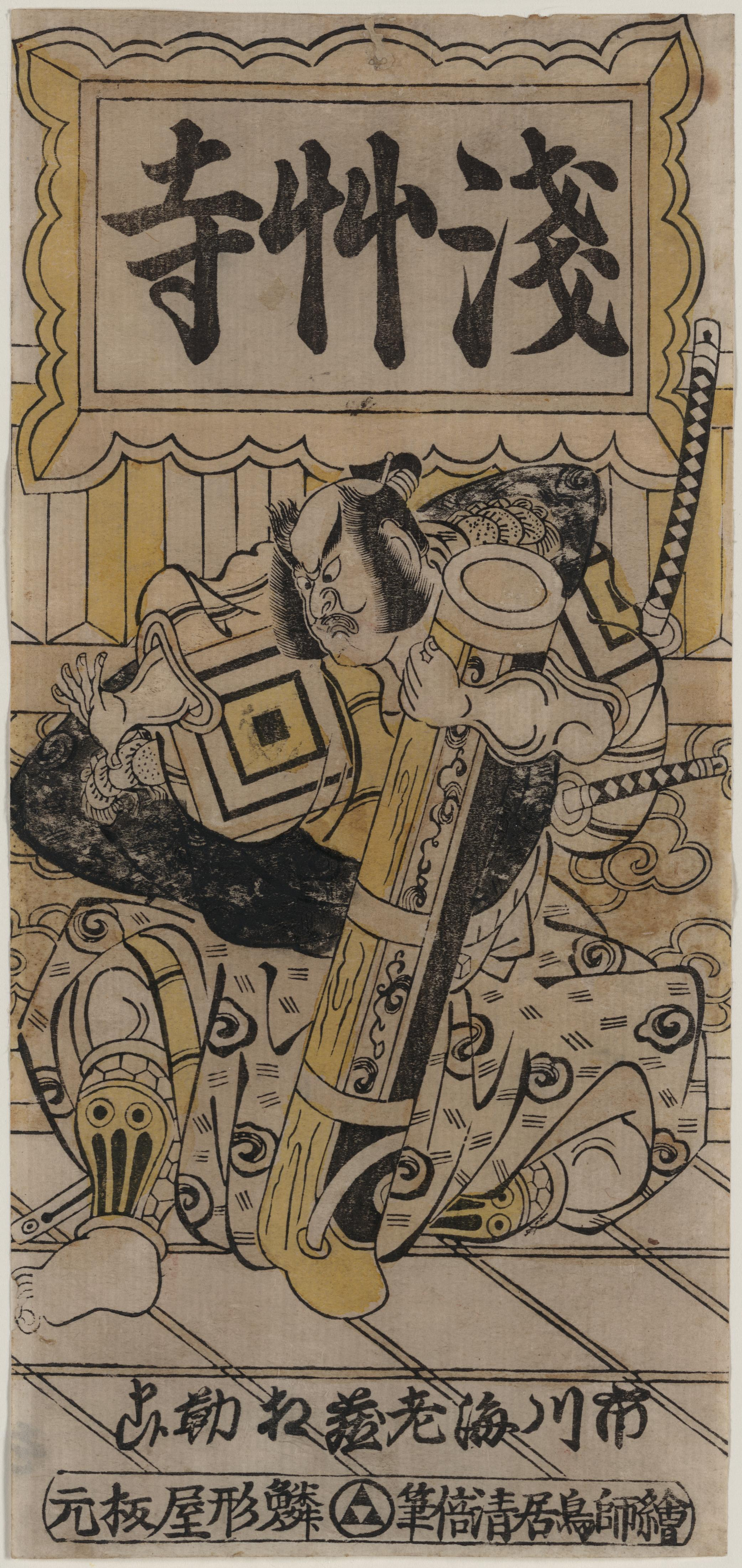 "Ichikawa Ebizō aitsutome moshi soro". 18th century Ukiyo-e woodcut. The actor Ichikawa Ebizō II, full-length, standing on stage, holding a large gun. Hosoban print. Title and other information based on entry for item in exhibition catalog. Exhibited: "The Floating world of Ukiyo-e: shadows, dreams and substances," organized by the Library of Congress, 2001.